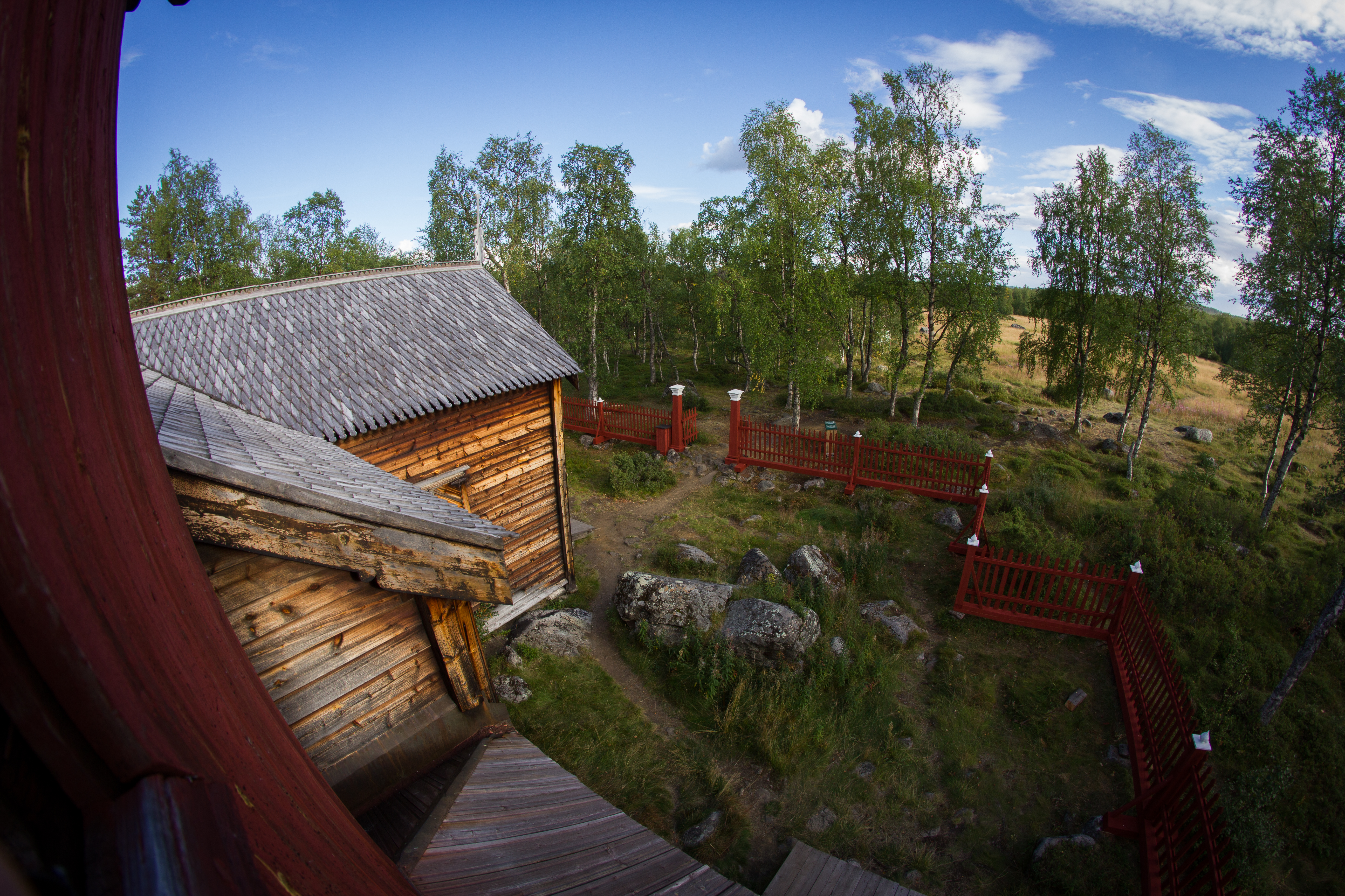 pielpajärvi wilderness church, Inari, Finland